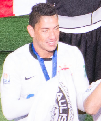 Starting XI of Corinthians of Brazil